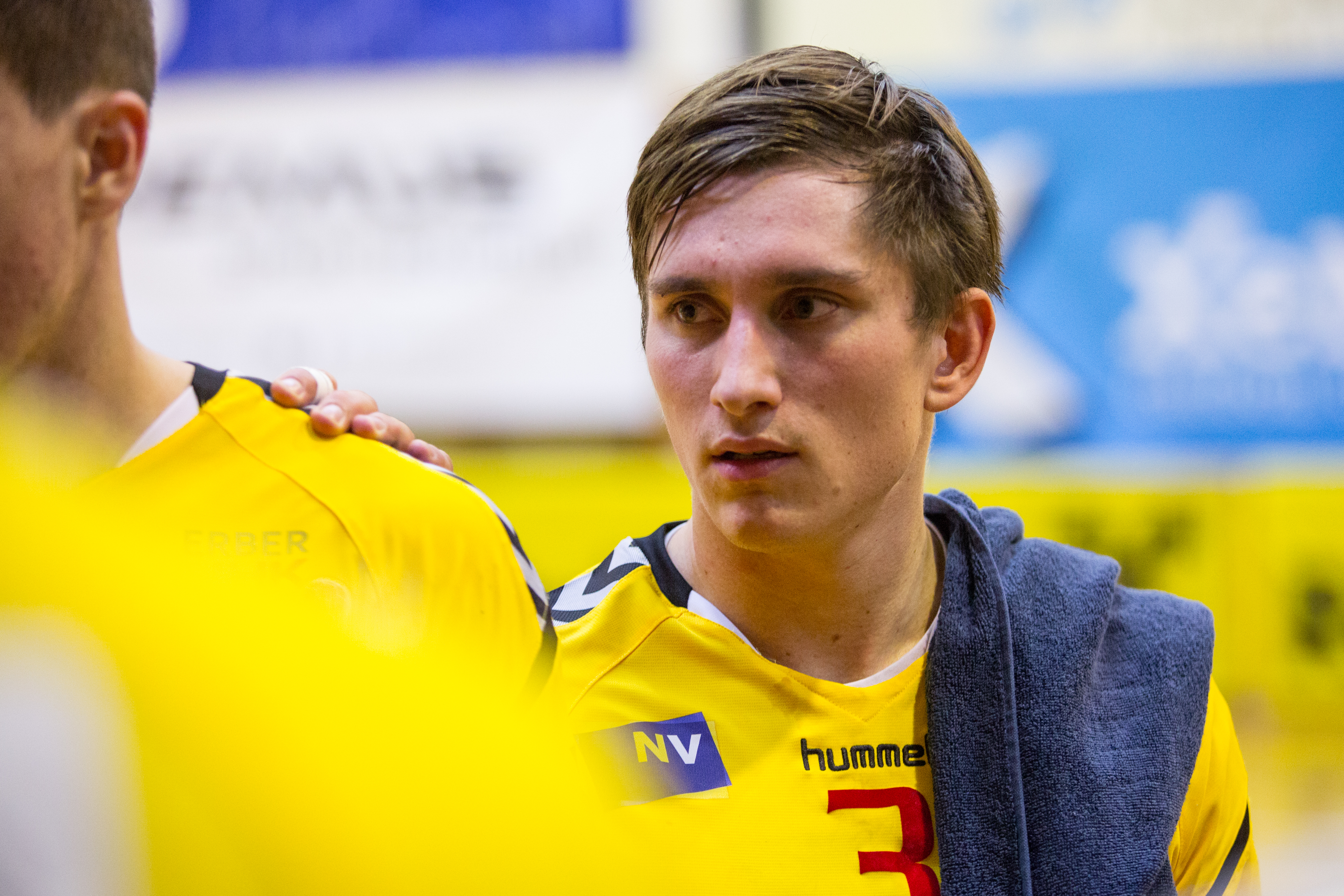 Jakob Jochmann during a Timeout at the Spusu-Ligagame HSG Bärnbach/Köflach versus UHK Krems.